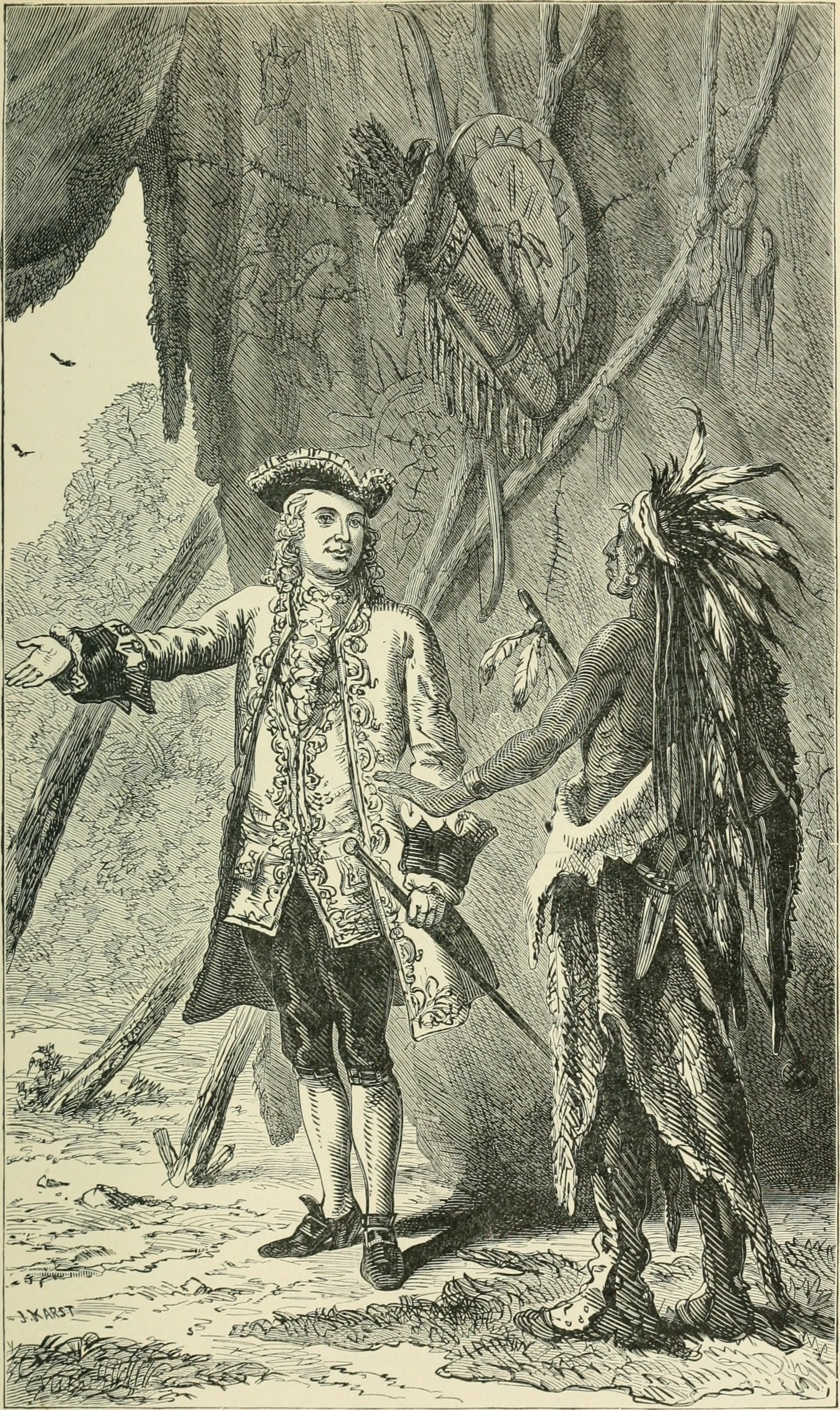 Illustration of Sir William Johnson talking to a Mohawk Chief. Title: History of the city of New York: its origin, rise and progress Year: 1896 (1890s) Authors: Lamb, Martha J. (Martha Joanna), 1829-1893 Harrison, Constance Cary, "Mrs. Burton Harrison,", 1846-1920 Subjects: New York (N.Y.) -- History Publisher: New York : A. S. Barnes and company Text Appearing Before Image: Sir Peter Warrens House. Text Appearing After Image: Ugh I 1 no dream any more. White chief dream better than Indian. Page 588. GOVERNOR CLINTON. 589 progress of the yellow fever in this latitude, and wrote an interestingpaper, carefully pointing out local circumstances which increased its vio-lence.^ He recommended remedies which proved efficacious in a multi-tude of cases, and sanitary measures which were so prolific in results thatthe Common Council of New York tendered him a vote of thanks. A governor for New York had been for some time foreshadowed.Clarkes seven years of rule terminated ingloriously. The conces-sion by which he allowed the Assembly to prescribe the disposition ofsupplies granted — hitherto the legal prerogative of the crown — appeasedthe popular party only for a short time. The governed are rarely satis-fied with concessions; each successful demand increases the clamor formore. It was thus in the experience of the lieutenant-governor. TheAssembly claimed the right to appoint its own treasurer. As soon asthis wa